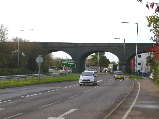 Rugby - Leicester Road. Four of the eleven arches which carried the Midland Counties Rugby -Leicester line across the River Avon and A426.